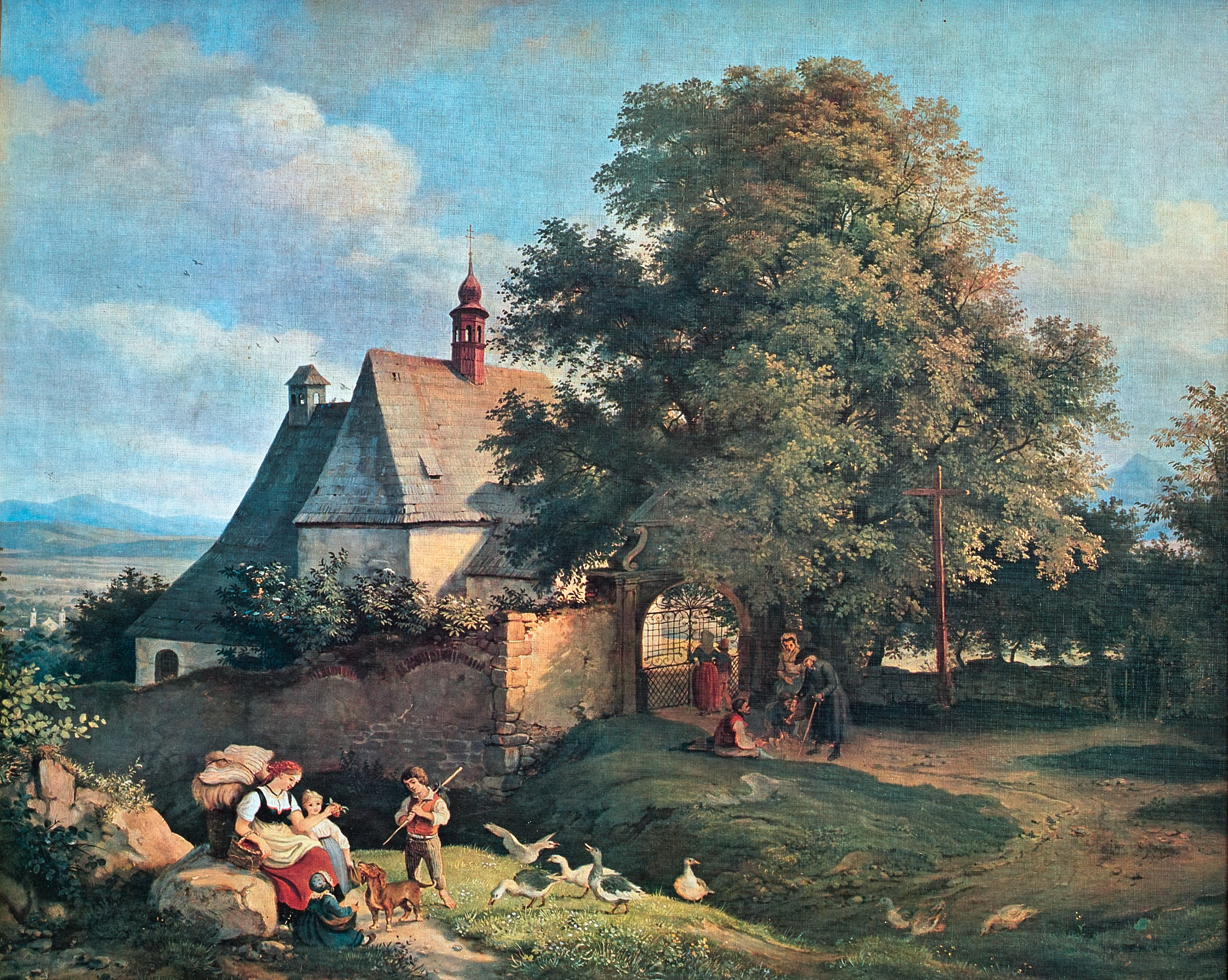 Adrian Ludwig Richter, st. Anna's church in Krupka, Czech Republic. Oil painting.